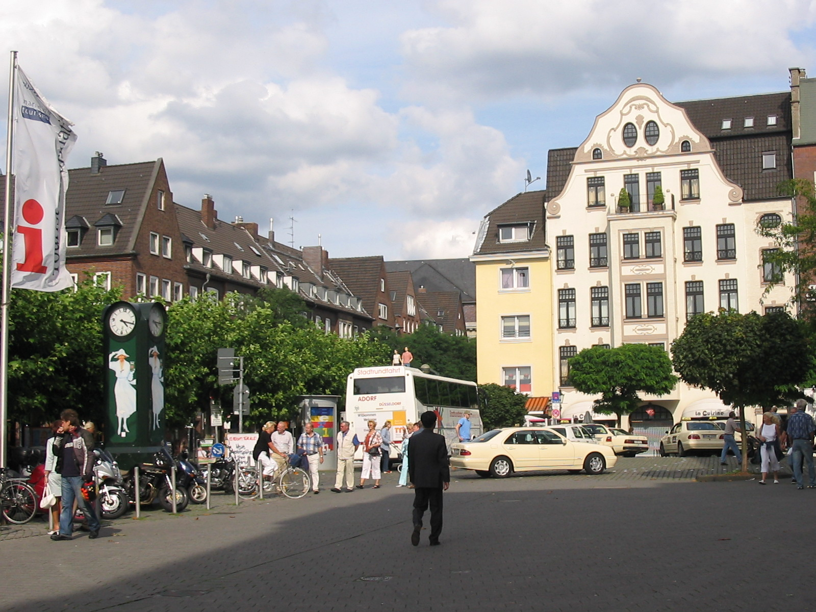 Düsseldorf inner city (Germany)